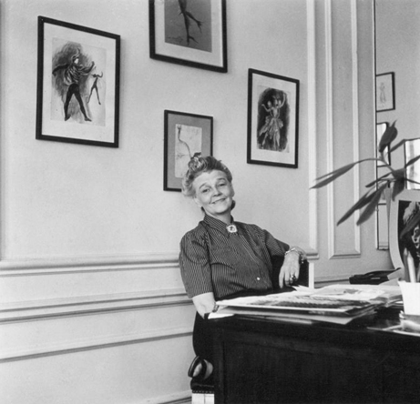 Photograph